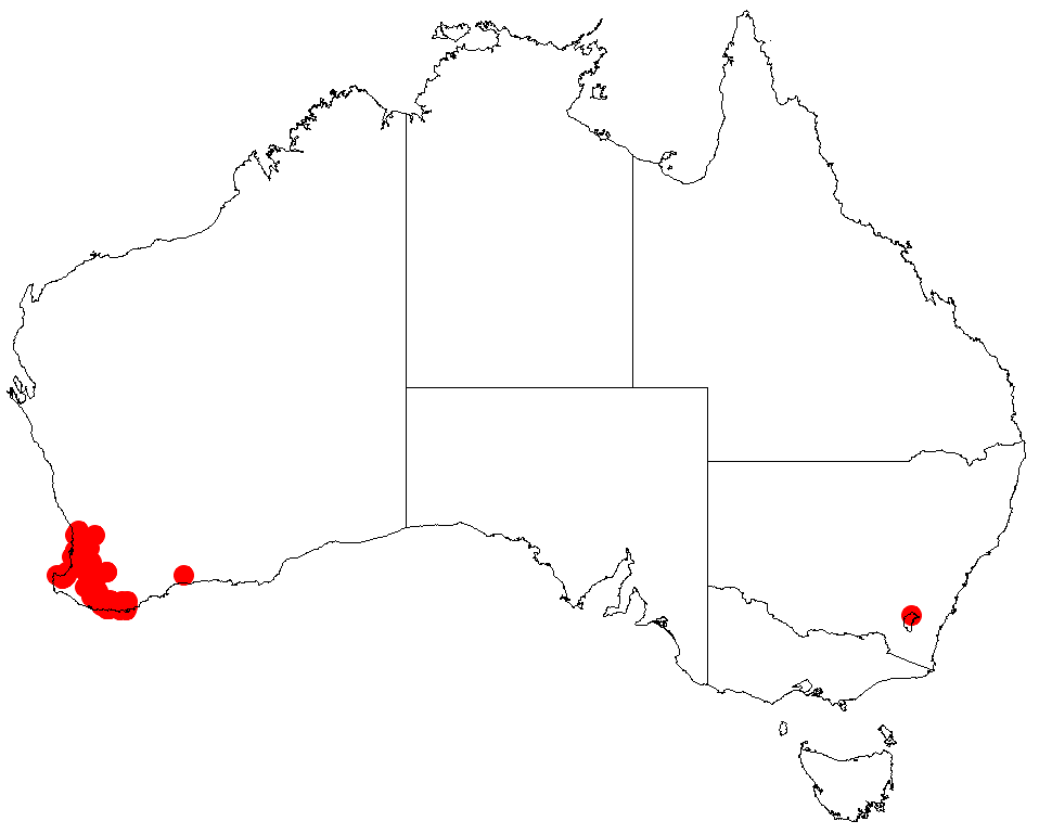 Acacia incurva occurrence data from Australasian Virtual Herbarium downloaded from on December 8 2018